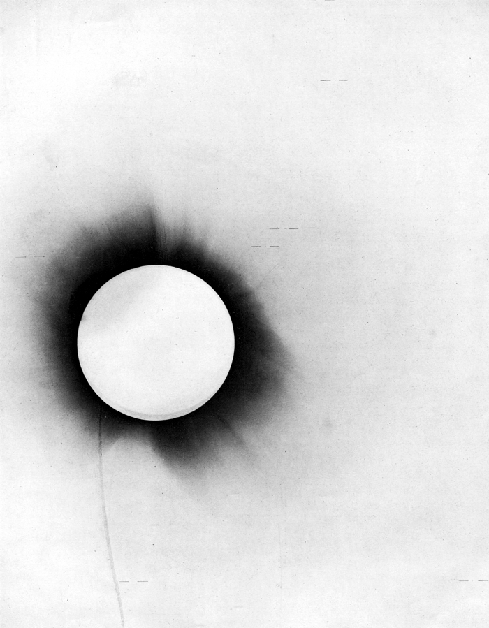 Negative of the 1919 solar eclipse taken from the report of Sir Arthur Eddington on the expedition to verify Einstein's prediction of the bending of light around the sun. For positive version, see Image:1919 eclipse positive.jpg. Original caption: In Plate 1 is given a half-tone reproduction of one of the negatives taken with the 4-inch lens at Sobral. This shows the position of the stars, and, as far as possible in a reproduction of this kind, the character of the images, as there has been no retouching. A number of photographic prints have been made and applications for these from astronomers, who wish to assure themselves of the quality of the photographs, will be considered as as far as possible acceded to.